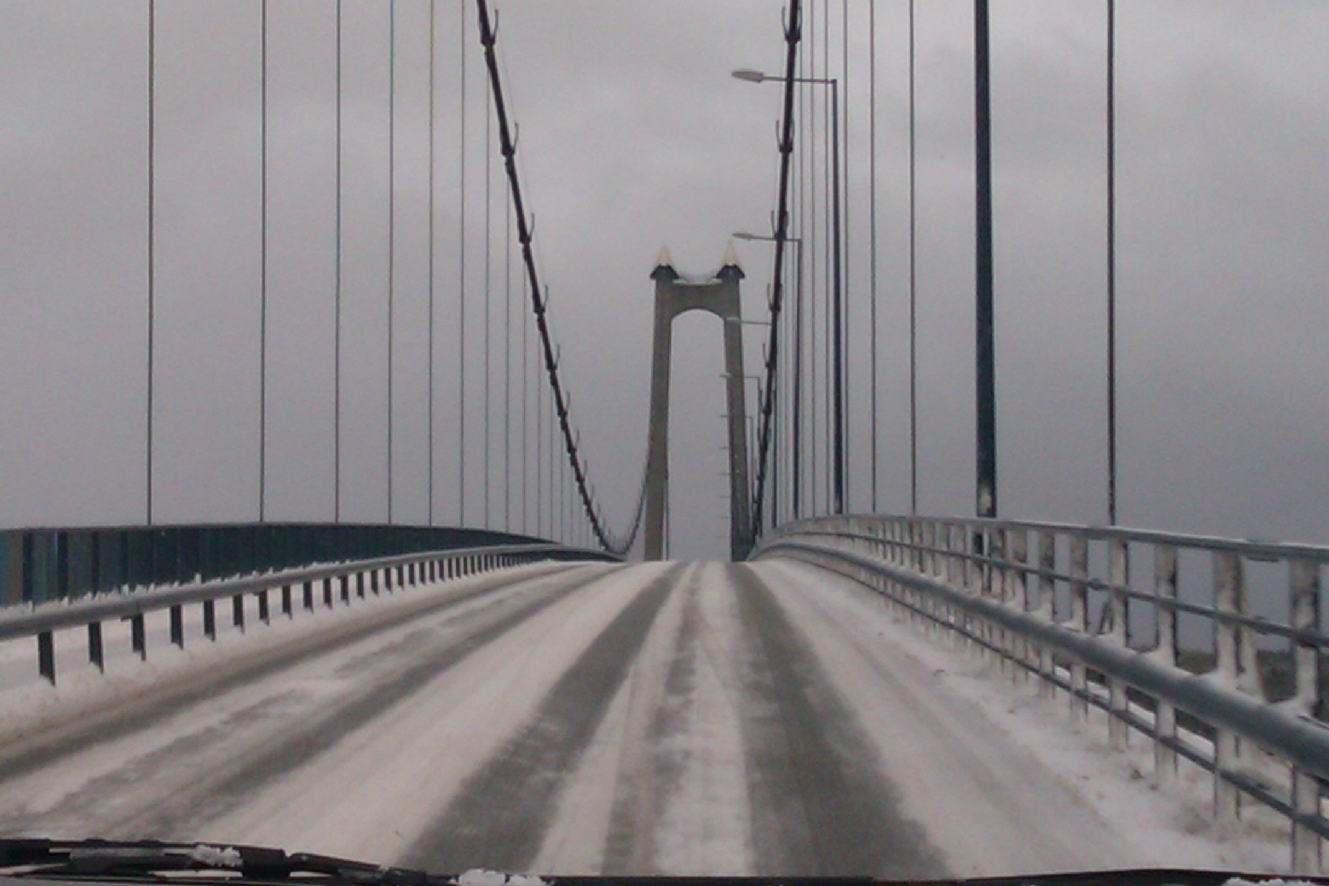 Bømla Bridge, Norway